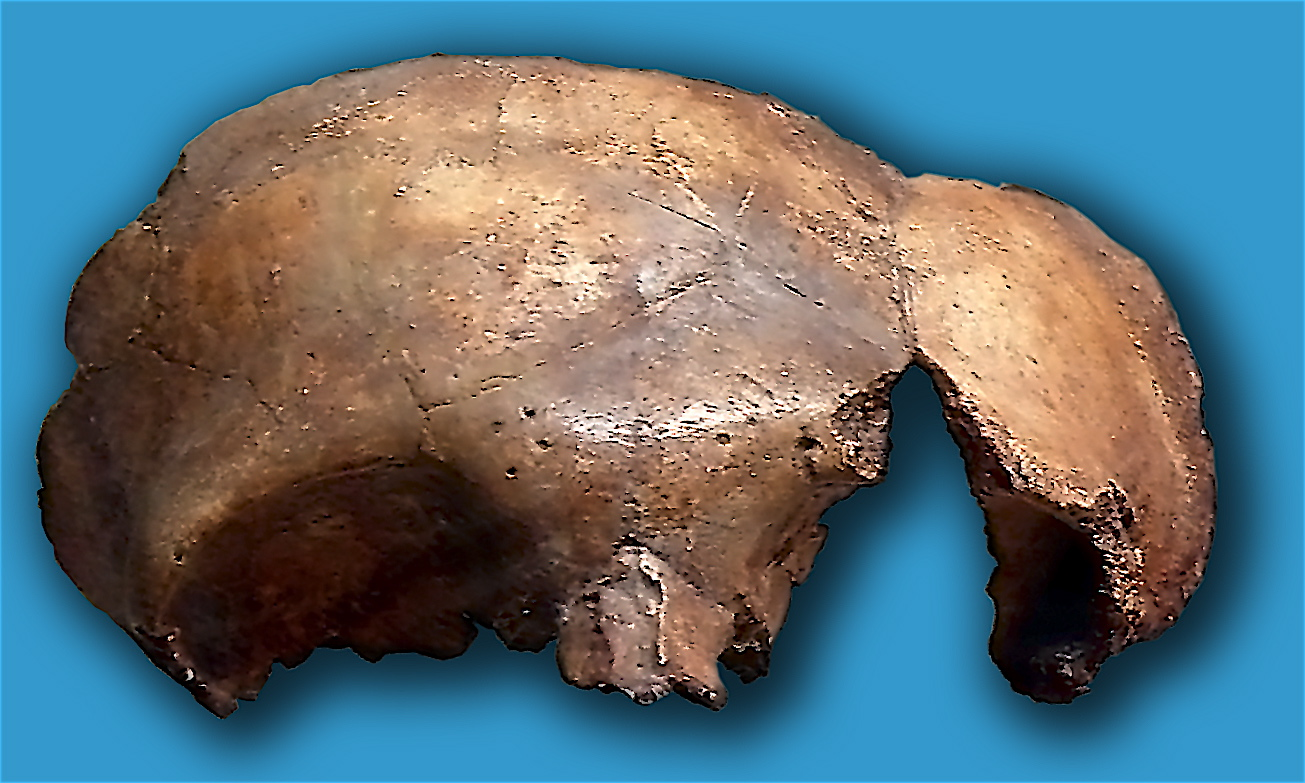 Frontal bone of a neanderthal child from the Cave of La Garigüela (Carigüela del Piñar, province of Granada, Spain); it is dated betwen 50,000-46,000 years old. This is a replica, the original it exhibit in the Museo Arqueológico Provincial of Granada)